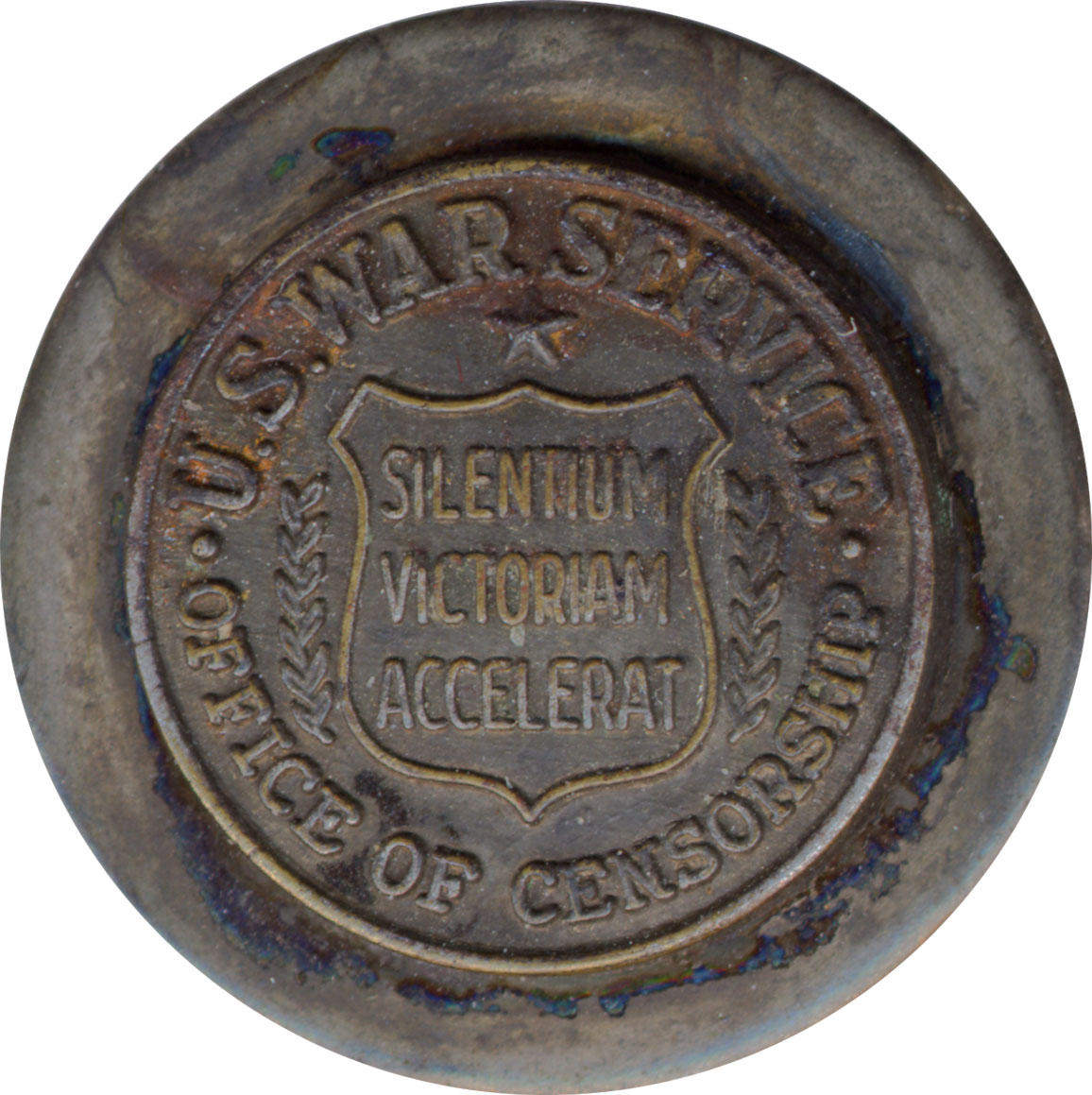 My mother worked for the United States Office of Censorship during World War II and this a scan of her employee pin.